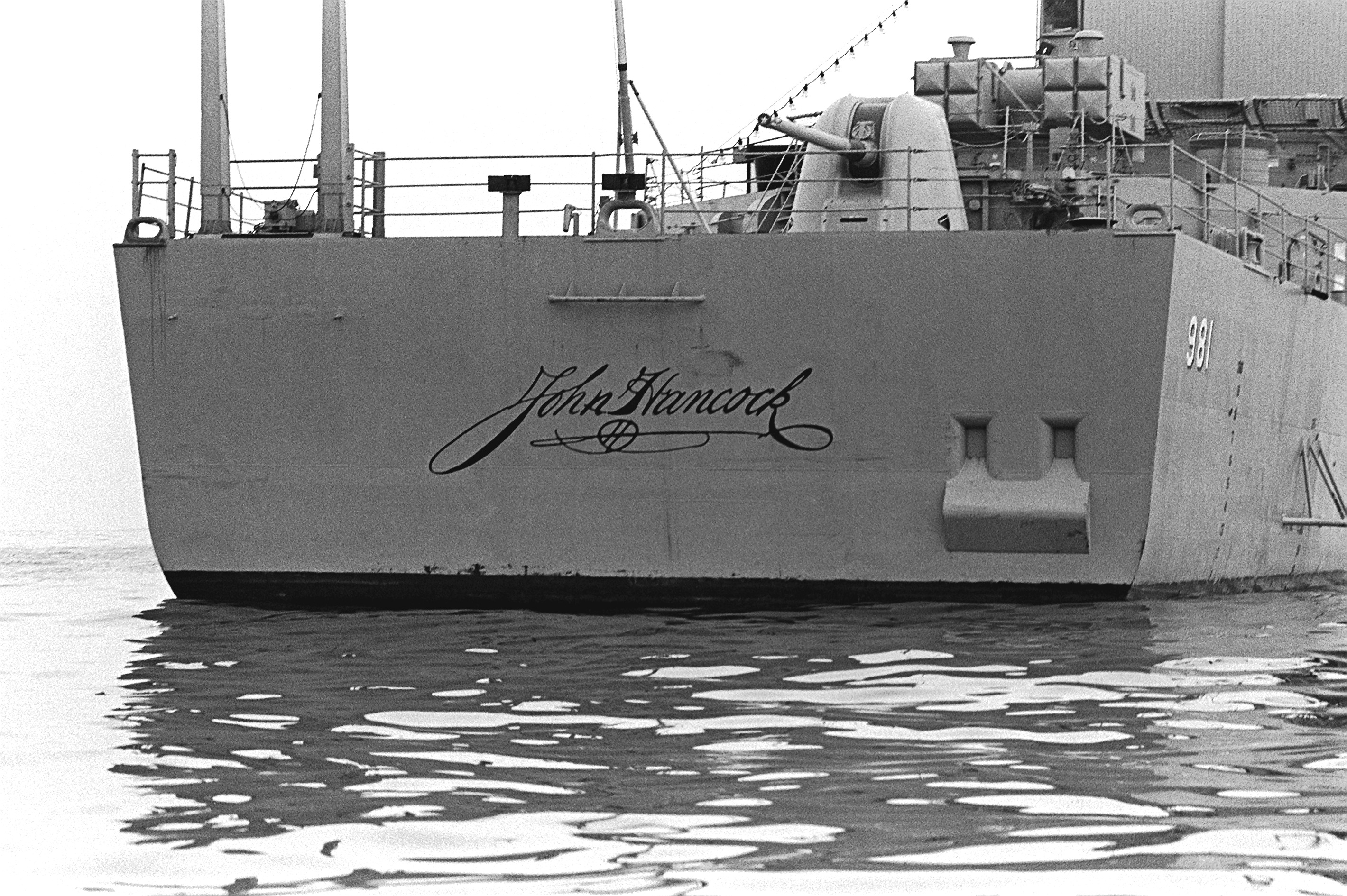 A stern view of the destroyer USS JOHN HANCOCK (DD-981) anchored during a port visit.